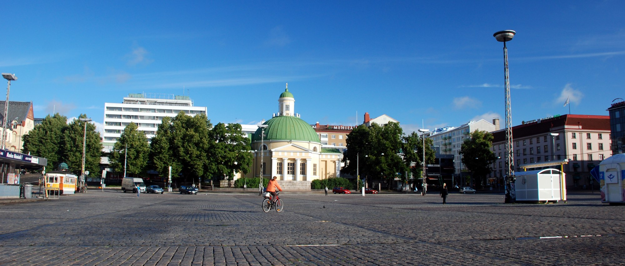 Marketplace (Kauppatori) of Turku